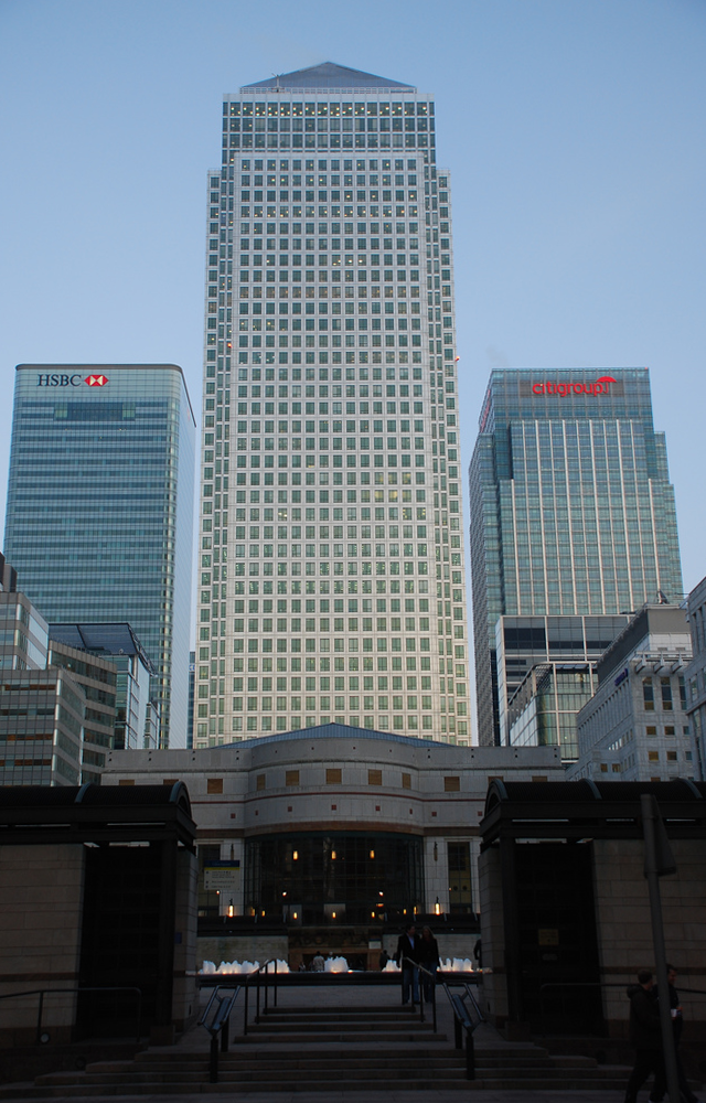 One Canada Square (Canary Wharf) London